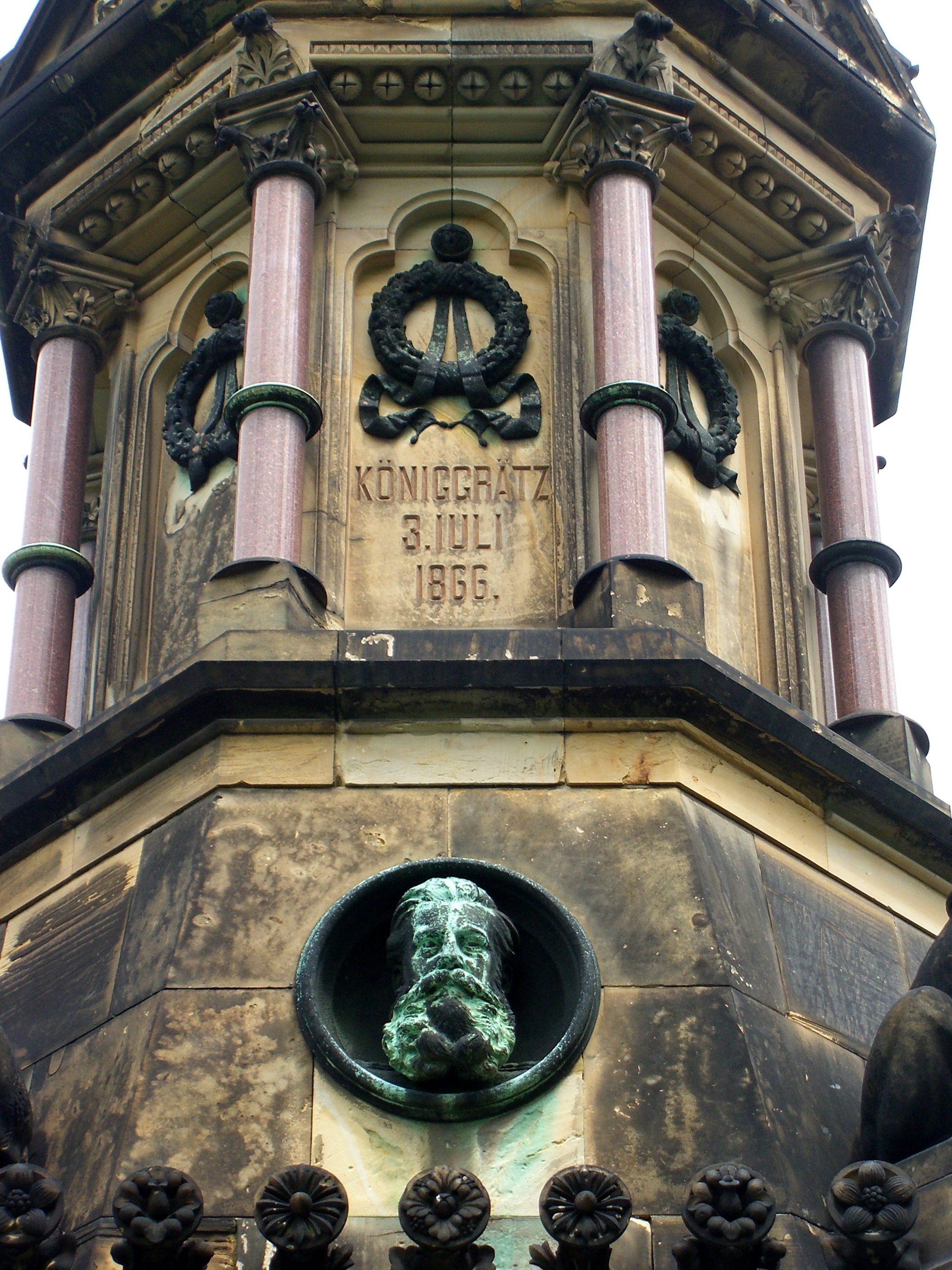 War memorial 1870/71 in Magdeburg, Emperor Frederick III., sculpted by Emil Hundrieser in 1877